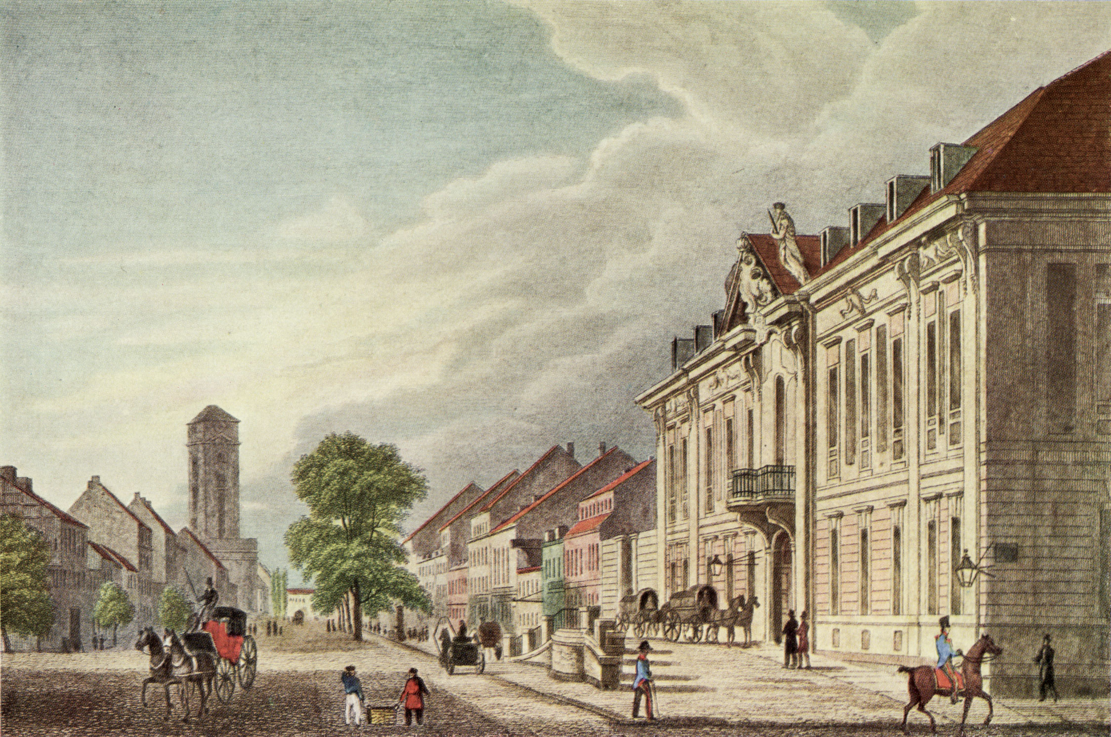 Berlin - Lindenstraße with the Collegiengebäude, housing between 1737 and 1945 the Protestant Consistory of Brandenburg and between 1737 and 1913 Königliches Kammergericht (lit. Royal Chamber Court, the Prussian supreme court), view northeastwards through Lindenstraße towards Protestant Jerusalem's Church; engraving by Johann Heinrich Hintze